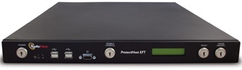 Luna Electronic Fund Transfer HSM